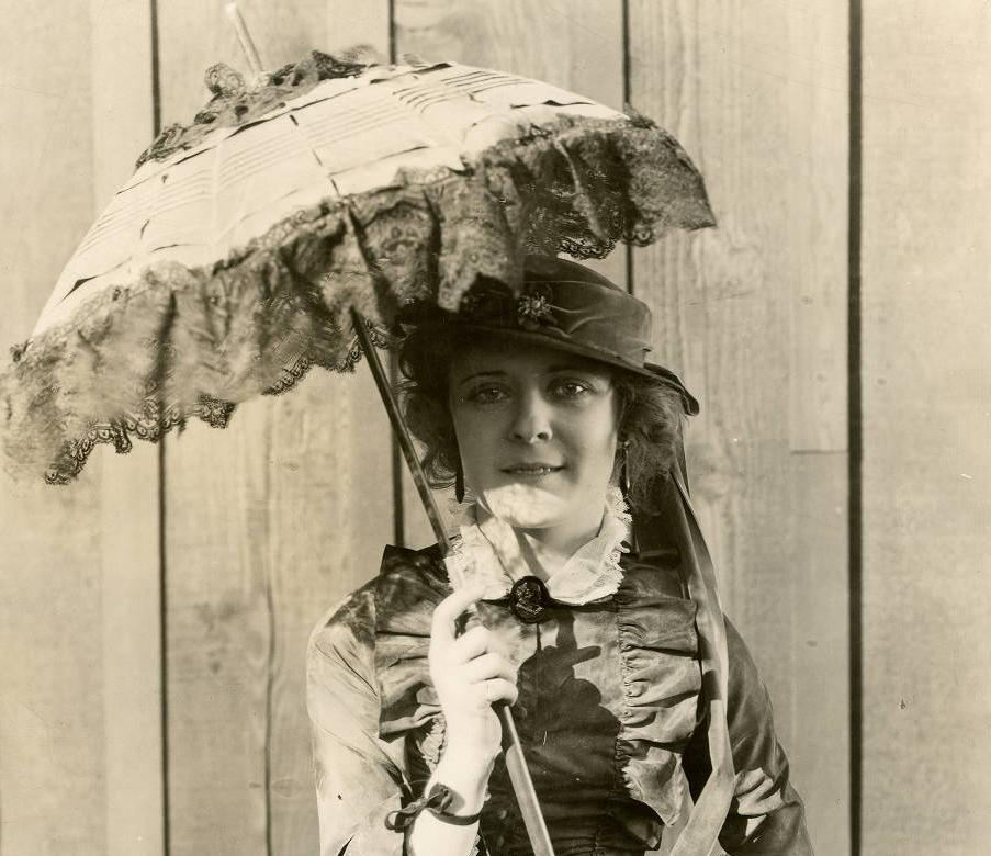 Priscilla Bonner in the American silent western film Bob Hampton of Placer (1921) - publicity still (cropped).